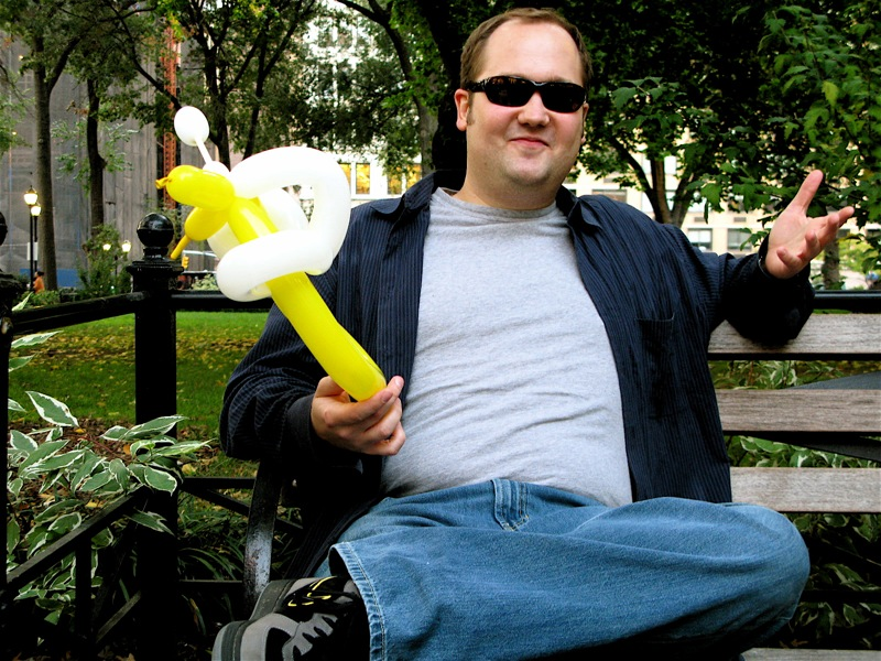 Comedy legend John Lutz in Union Square NYC 2007.